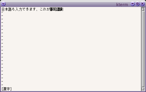 m-17n nvi (Japanese input)